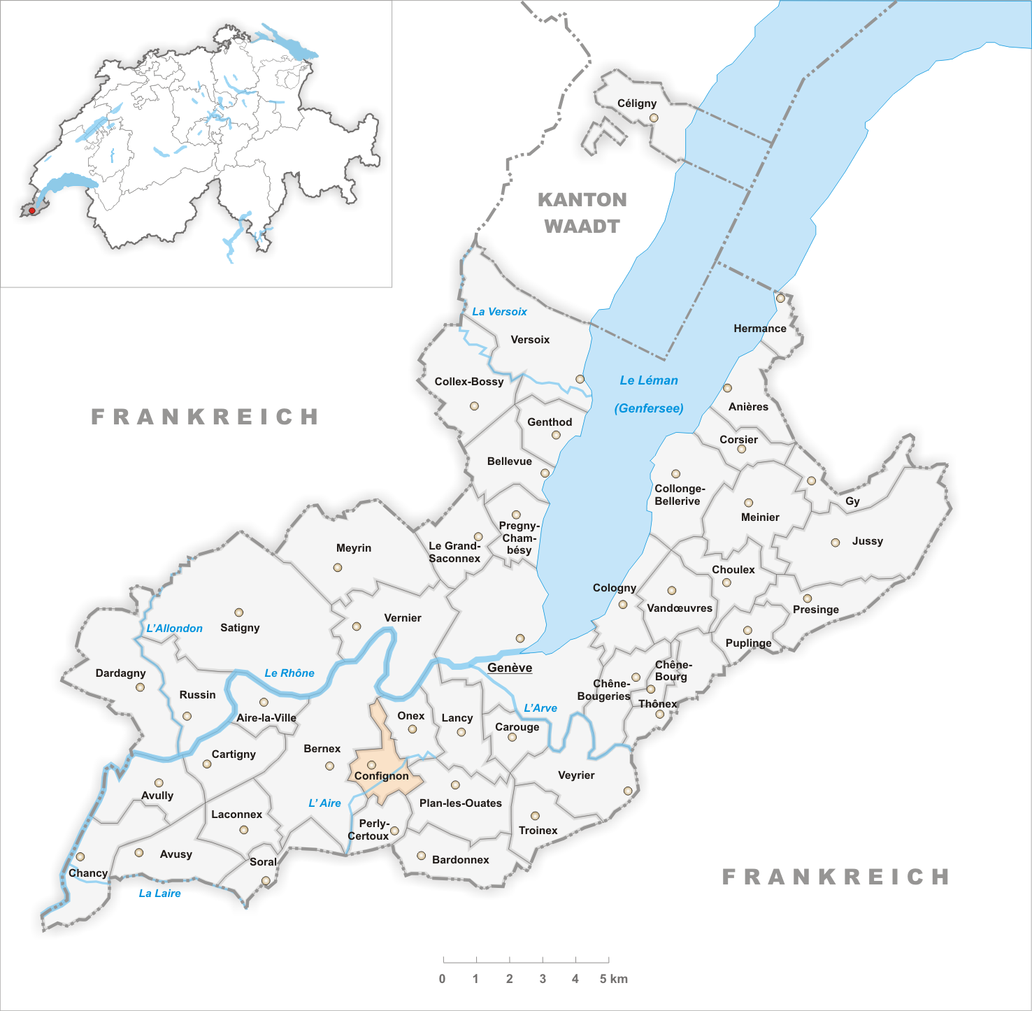 Municipality Confignon